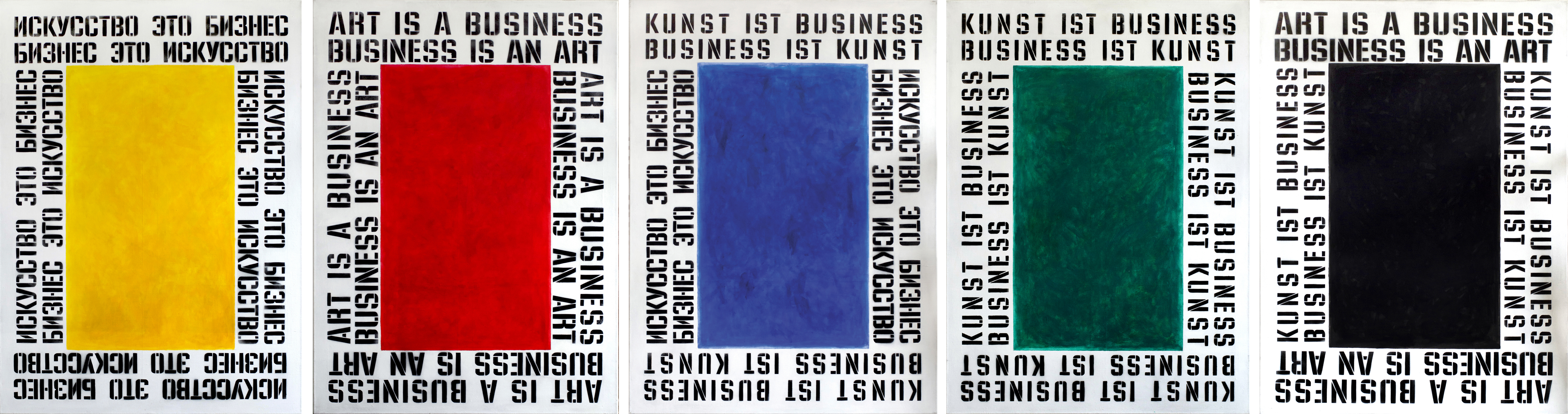 conceptual art